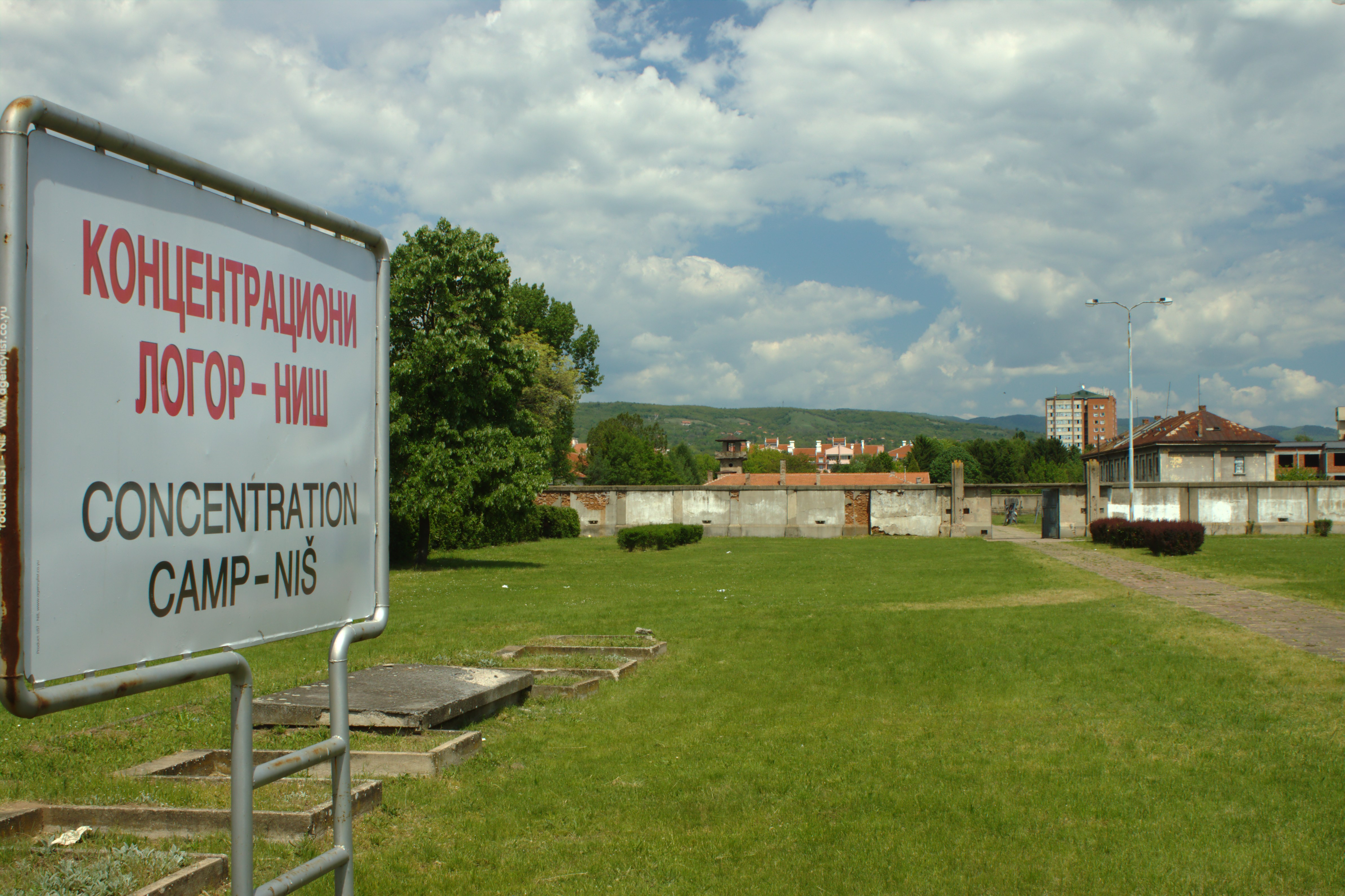 Enterance to the Crveni Krst concentration camp in Niš, Serbia